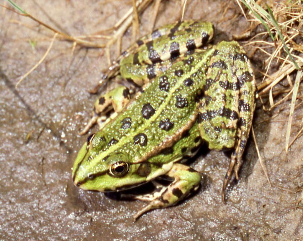 A younger adult (female) Marsh Frog, Pelophylax ridibundus. This grass-green specimen might easily be mistaken for an Edible Frog (Pelophylax kl. esculentus).